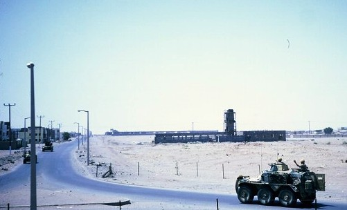 The road past the infamous Mansura Picquet between Mansura and Sheikh Othman. This mobile patrol is by The Queen's Dragoon Guards, but the infantry inside the Personnel Carrier are soldiers of 3 Royal Anglian. The Section Commander waves as he passes the four of us in the re-inforced tower in the centre of the roundabout.